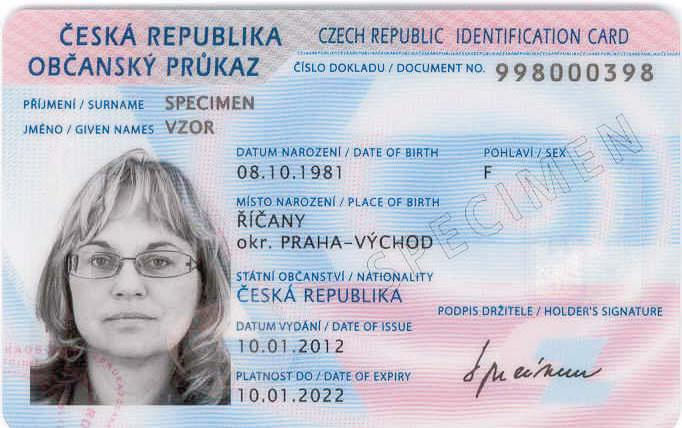 The national identity card of the Czech Republic (first issued on 1 January 2012)